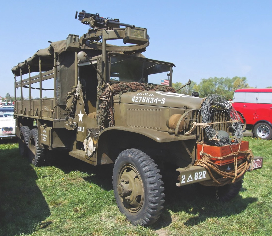 General Motors Truck, Nomenclature-truck 2,5 tob 6x6, Supply Service Maintaining Vehicle